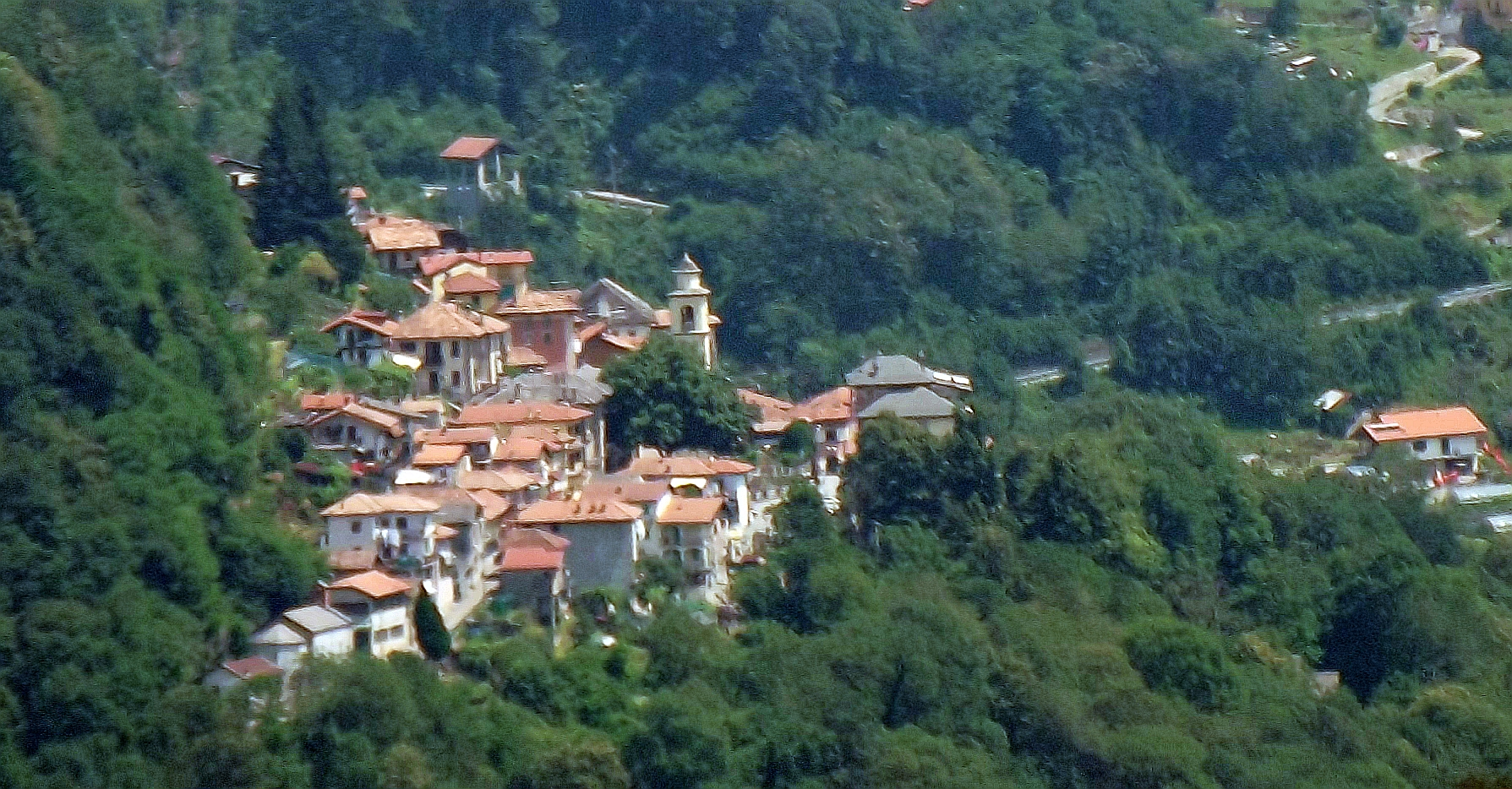 Chesio (Loreglia, VB, Italy): panorama from Alpe Collapiana